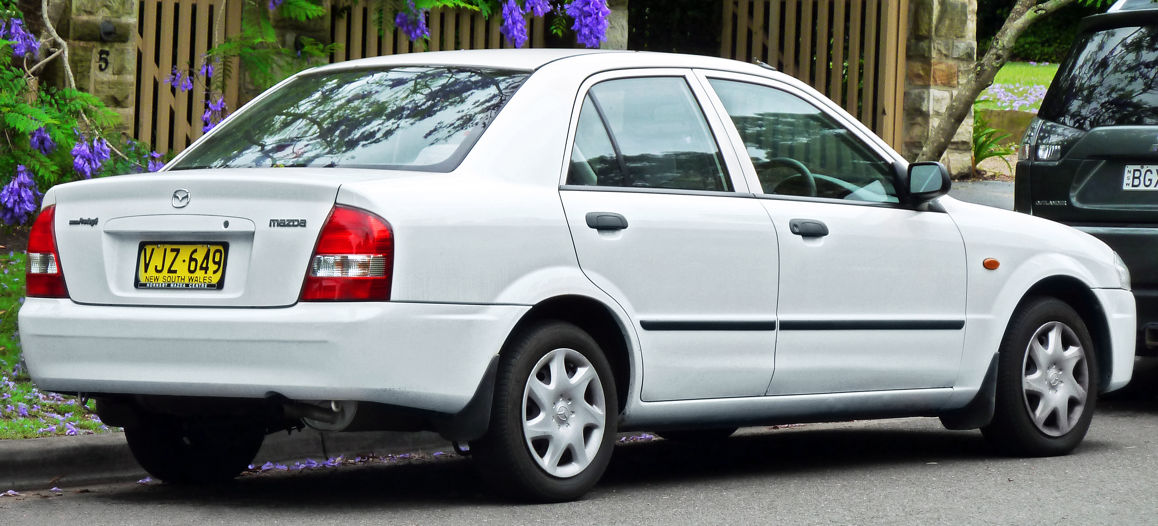 1998 Mazda 323 (BJ) Protegé sedan. Photographed in Gordon, New South Wales, Australia.